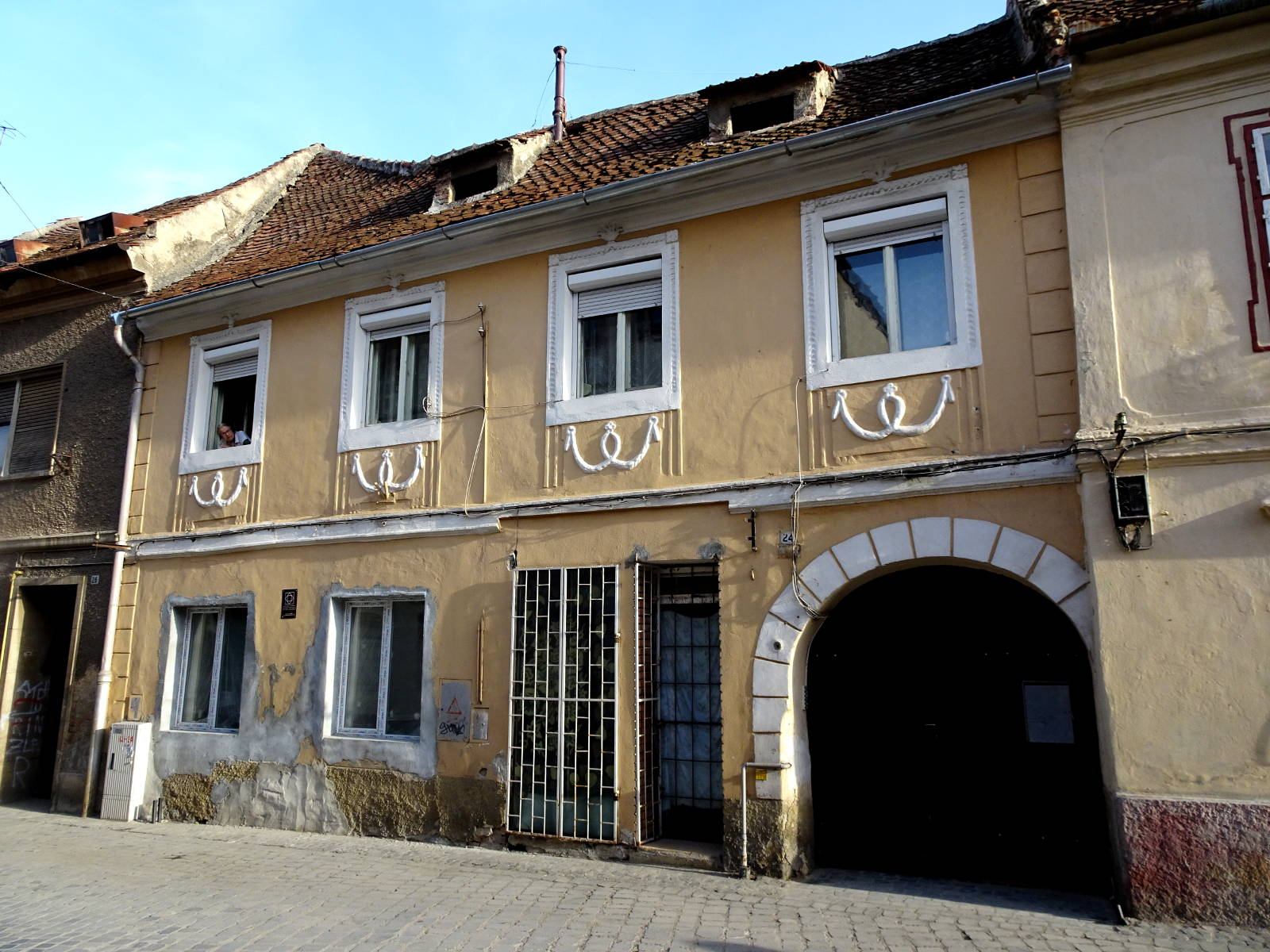 House on Postăvarului street in Brașov; house number 24